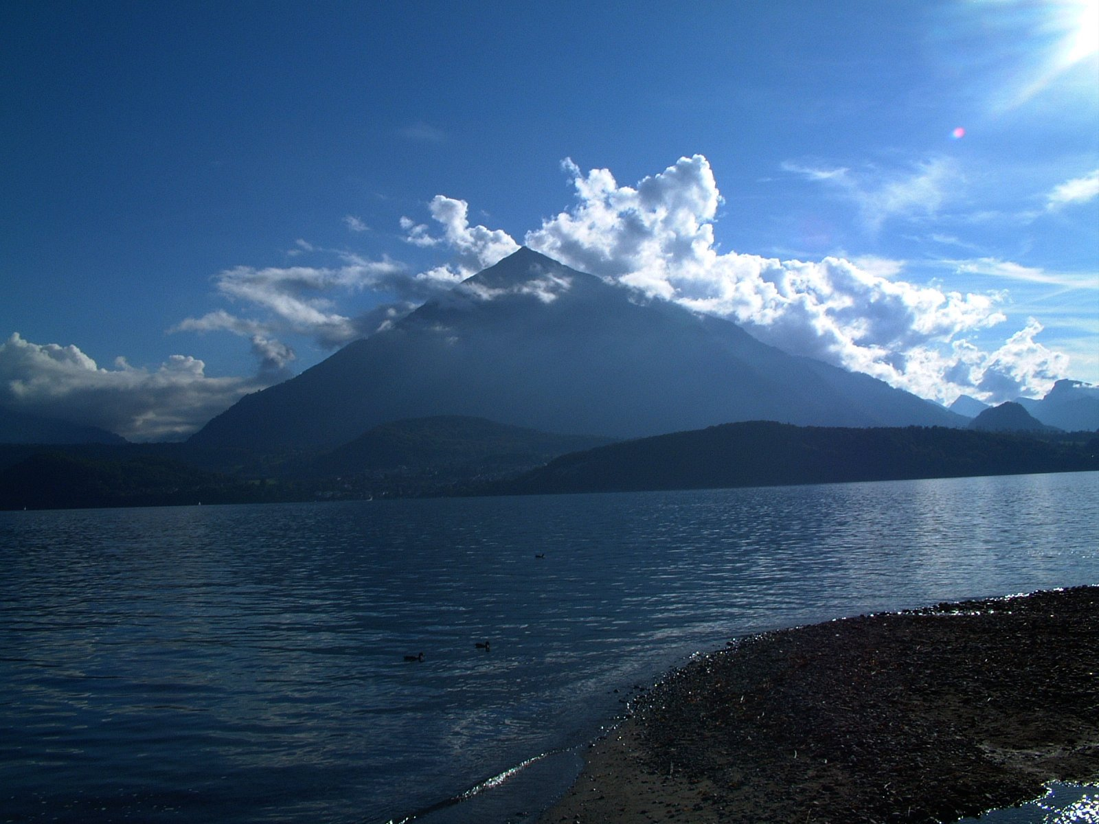 Lake Thun and Niesen